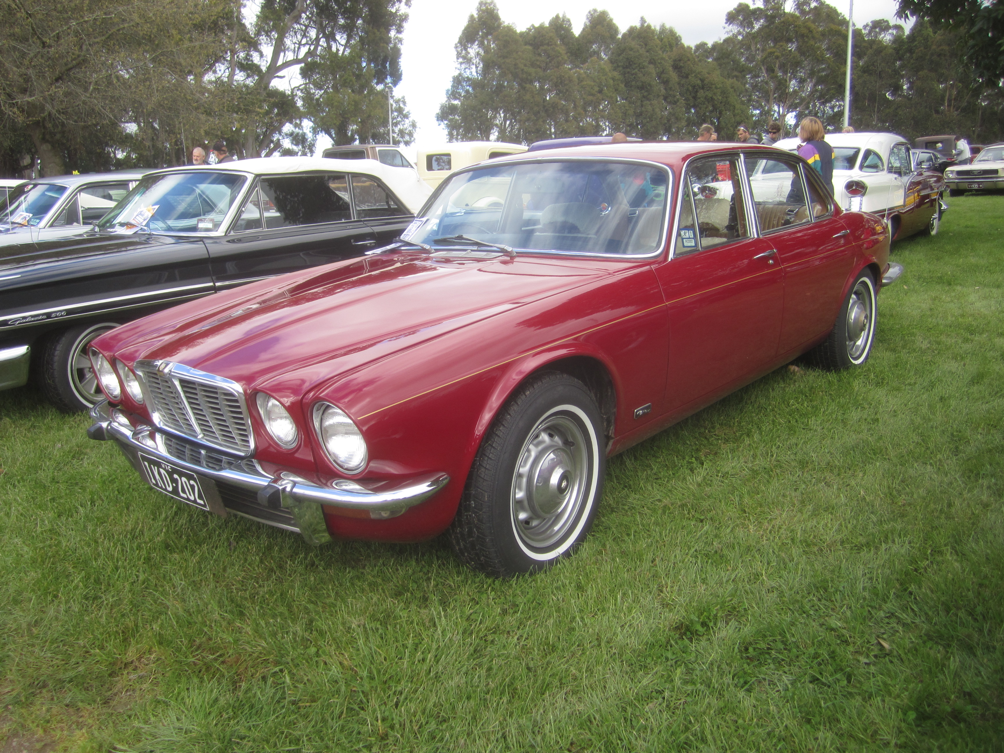 The Series I XJ6 was introduced in 1968, replacing most of the old Jaguar saloons. The very similar but more upmarket Daimler Sovereign was sold along side it. The XJ12 version (and Daimler Double Six) was announced in July 1972, featuring simplified grille treatment, and powered by a 5.3 L V12 engine. In 1973 the facelift Series II was introduced, Visually, Series II cars are differentiated from their predecessors by raised front bumpers to meet US crash safety regulations, which necessitated a smaller grille, complemented by a discrete additional inlet directly below the bumper. A 2 door Coupe version was now available. Engine; 2.4, 3.8, 4.2 6s or 5.3 V12